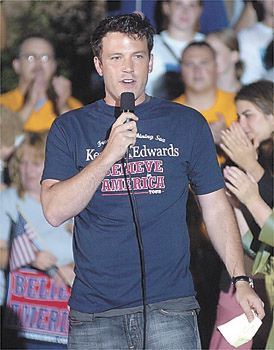 Ben Affleck campaigning in Zanesville, Ohio on behalf of John Kerry